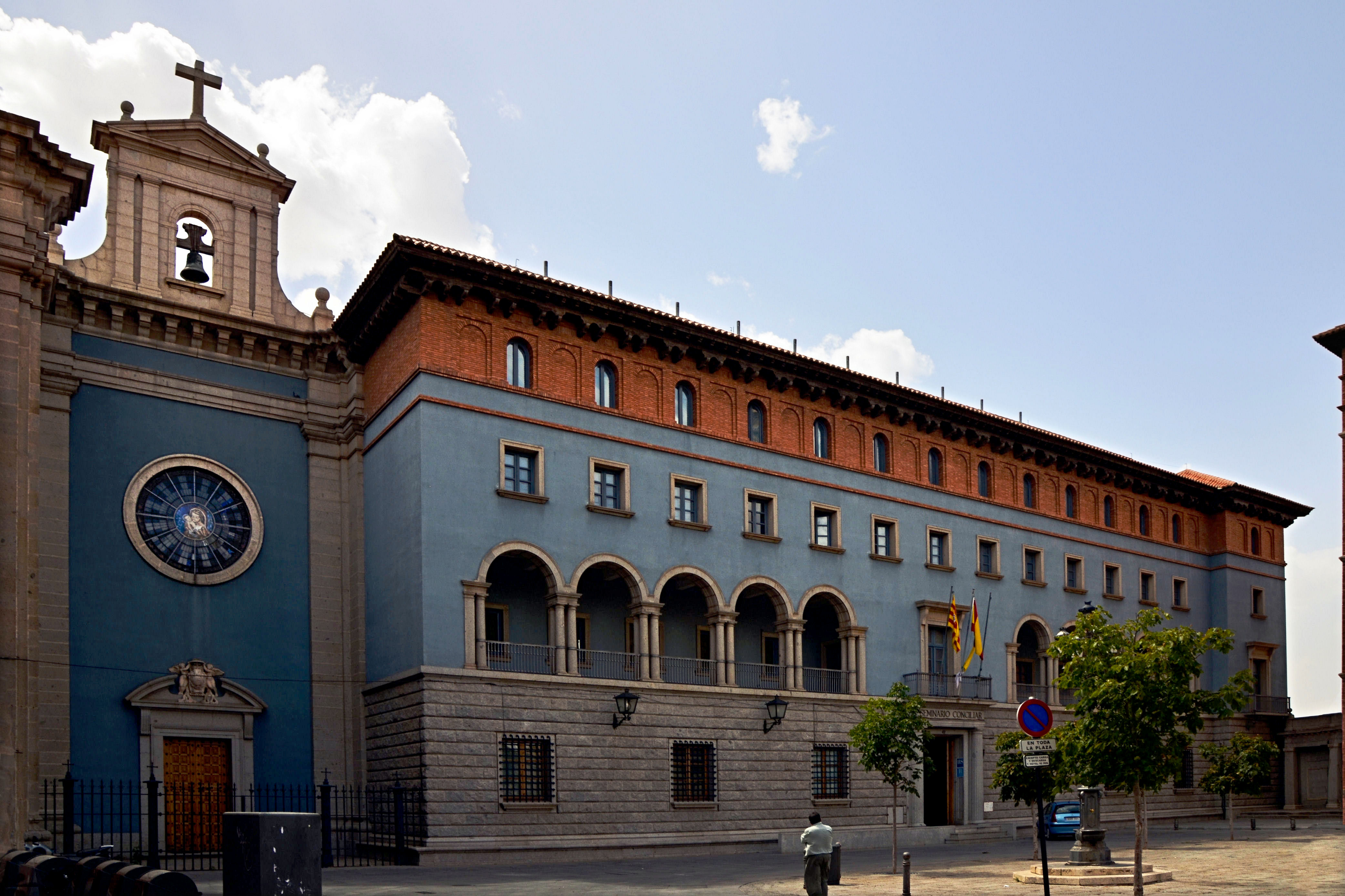 Edificio del siglo XVIII reconstruido despues de la guerra civil